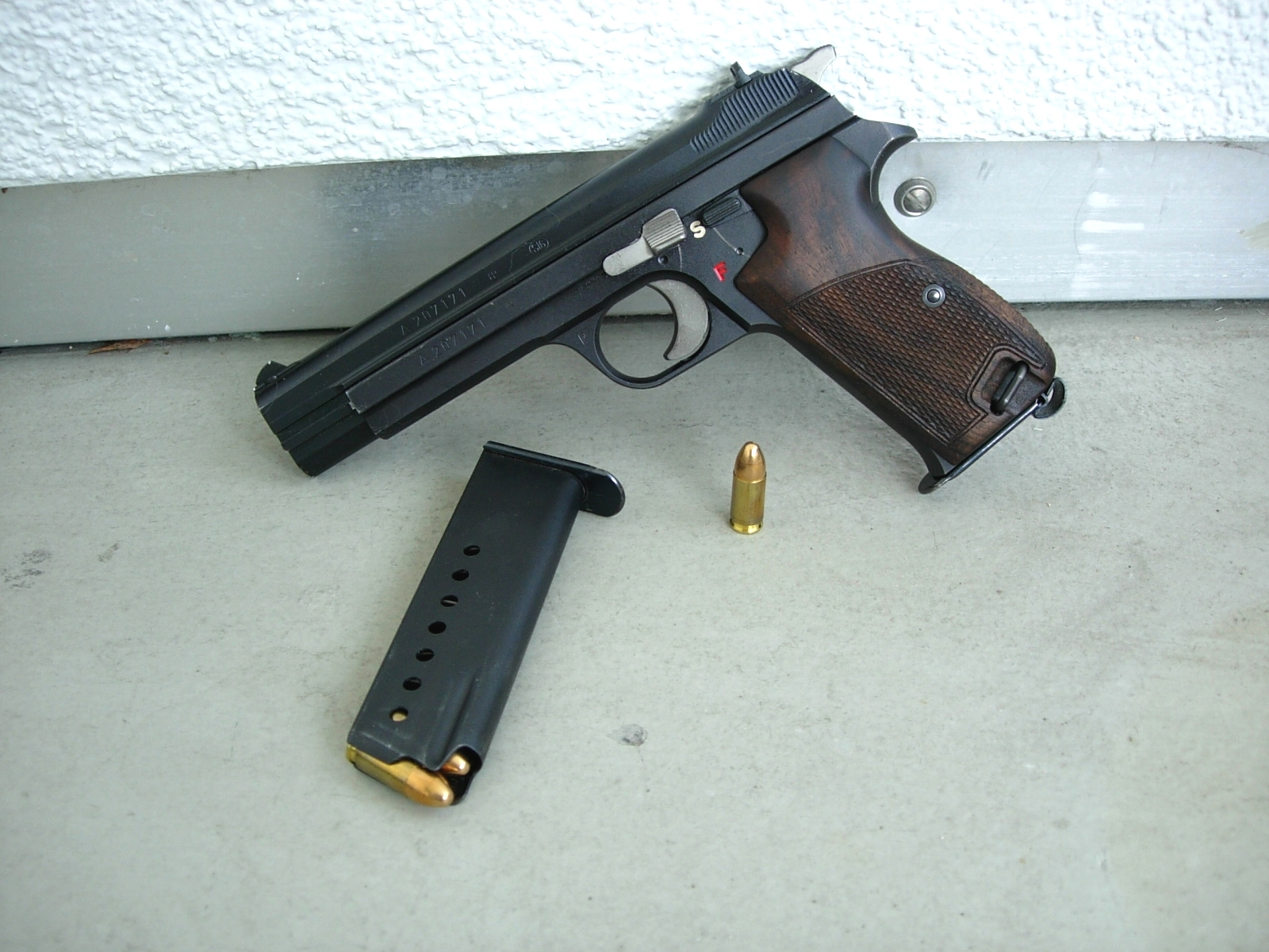 Swiss Army Automatic Pistol P210, including magazine view and ammo - Modified grip from plastic to tropical wood.